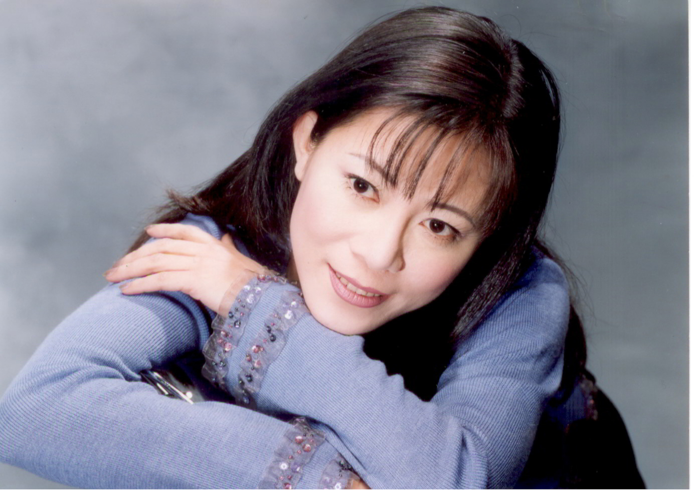 Alice Yang